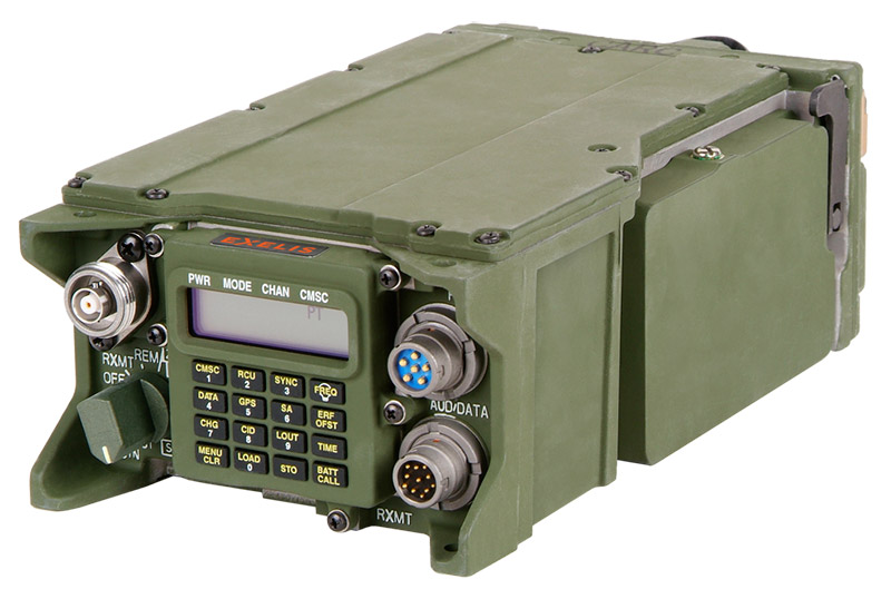 The front of the Exelis SINCGARS RT-1523G